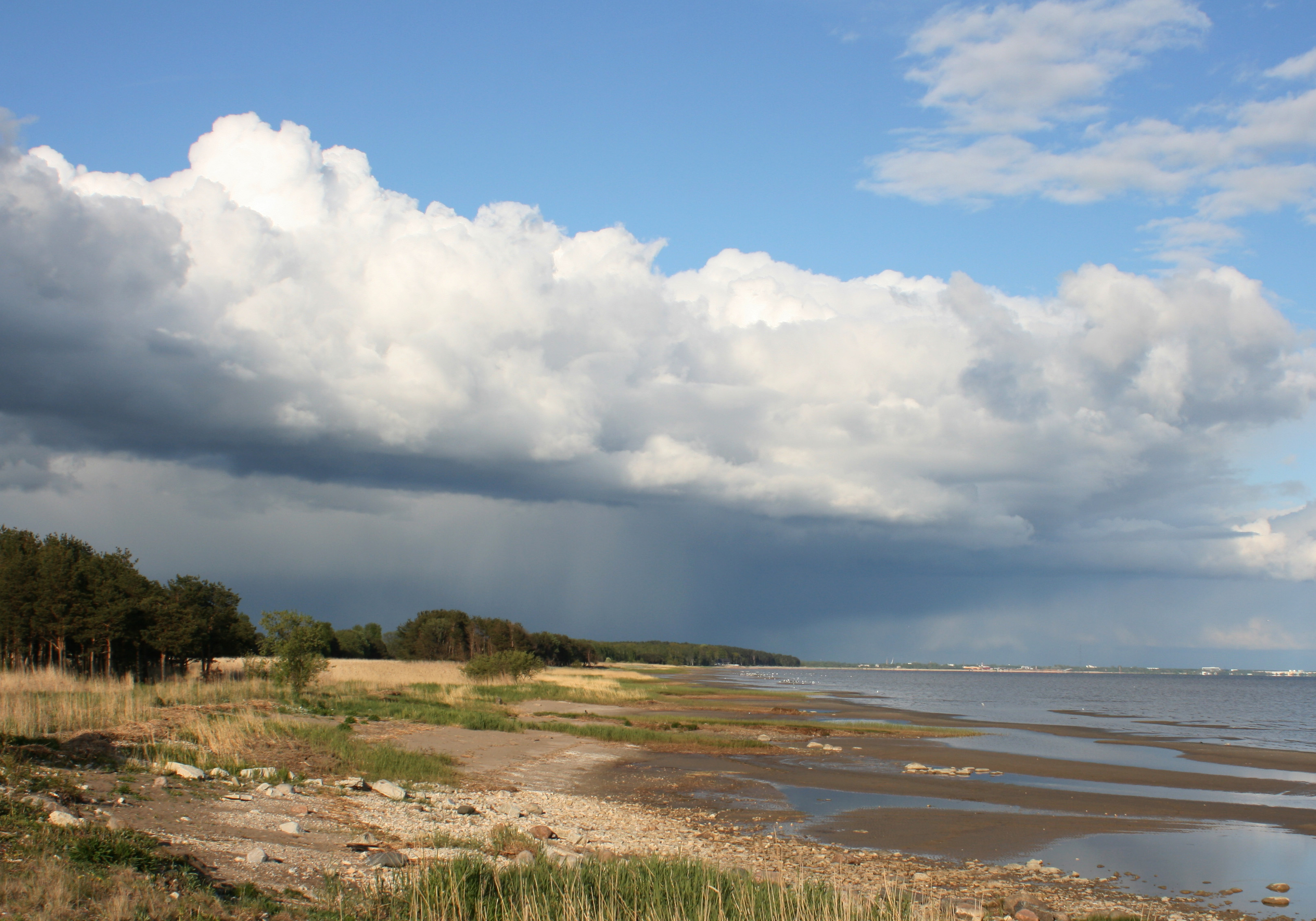 View of Valgerand in Pärnu county, Estonia